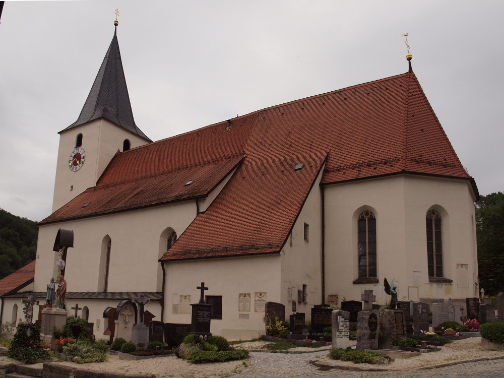 Catholic church “St. Bartholomäus” (Bartholomew) in Passau-Ilzstadt, Germany